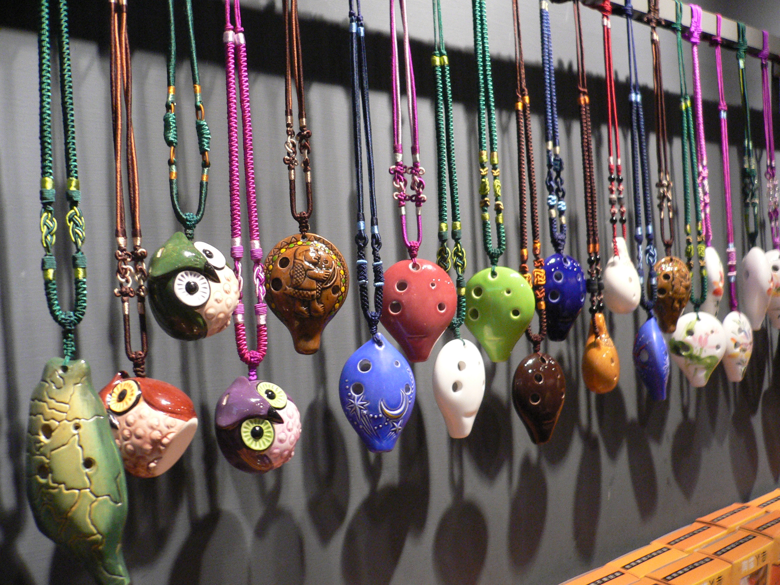 Ocarinas sold at Jiu-feng, Taiwan.